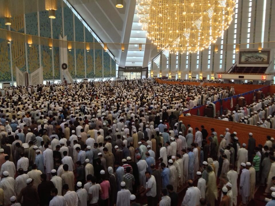 Faisal Mosque This is a photo of a monument in Pakistan identified as the ICT-5